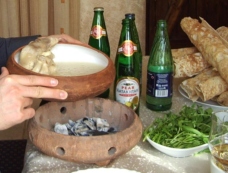 Serving of khash